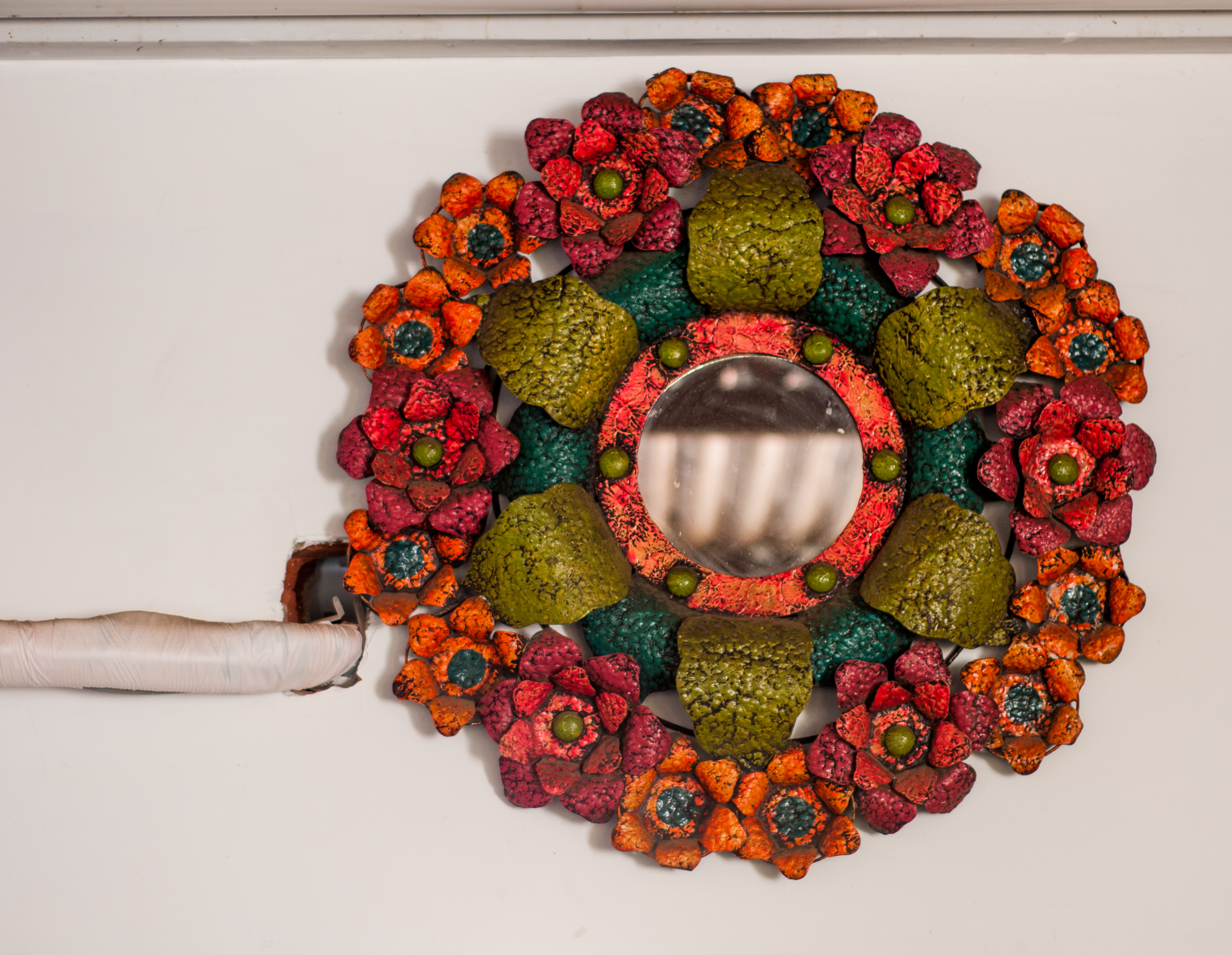 Flower-shaped mirror in Museum Gabriel Bracho